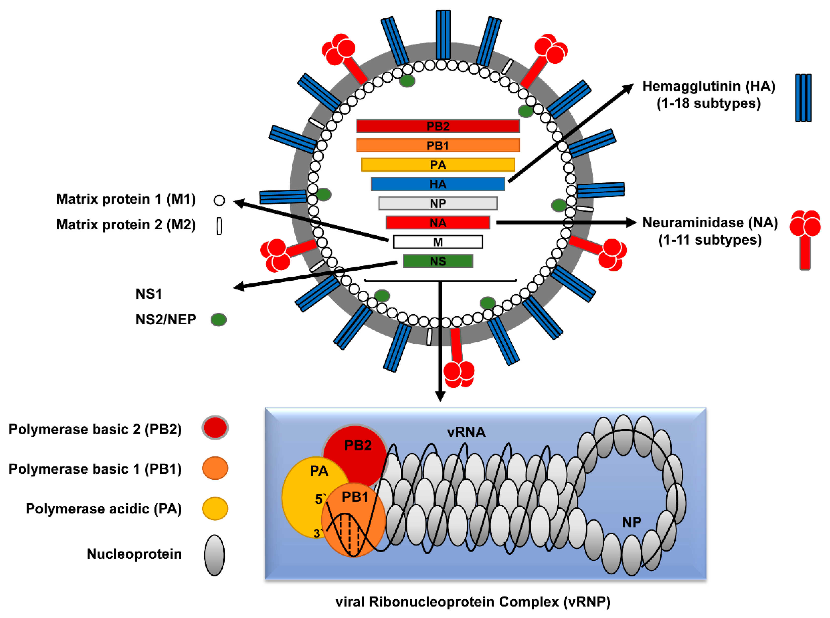 Schematic structure of influenza A virus (IAV). The envelope of the IAV particle, which is derived from the host cell plasma membrane, contains three trans-membrane proteins; two surface glycoproteins designated as hemagglutinin (HA) and neuraminidase (NA) and the proton channel matrix protein 2 (M2). The matrix protein 1 (M1) underlies the inner surface of the viral envelope and associates with NEP and viral ribonucleoprotein complexes (vRNPs). The eight vRNPs comprise eight negative-strand RNA segments associated with the nucleoprotein (NP) and three RdRp polymerase subunits (PA, PB1, PB2).